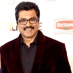 Sarathkumar at 62nd Britannia Filmfare South Awards 2014